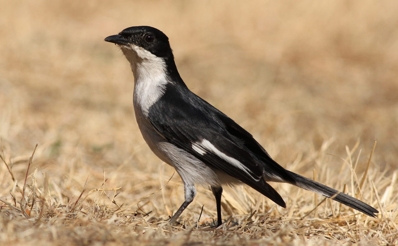 Fiscal Flycatcher, Sigelus silens - male, at Suikerbosrand Nature Reserve, Gauteng, South Africa